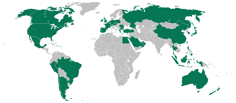 Map of the countries with Starbucks Coffee Shops